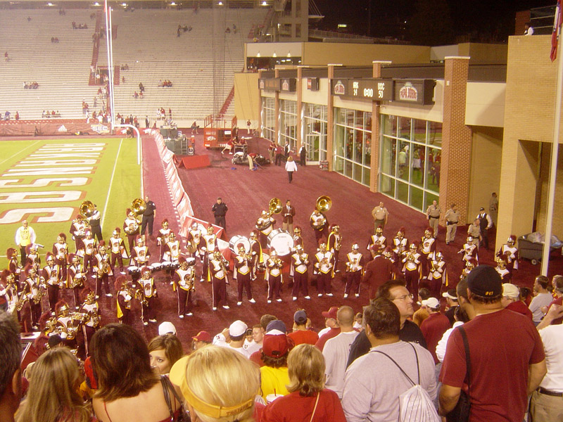 The Spirit of Troy give a traditional post-game concert, this time celebrating the 50-14 defeat of the University of Arkansas in Donald W. Reynolds Razorback Stadium in Fayetteville, Arkansas. Photo taken by Bobak Ha'Eri. September 2, 2006. Please observe license and properly cite in use outside Wikipedia.